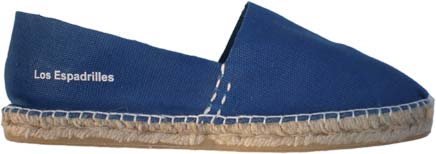 blue espadrille from Los